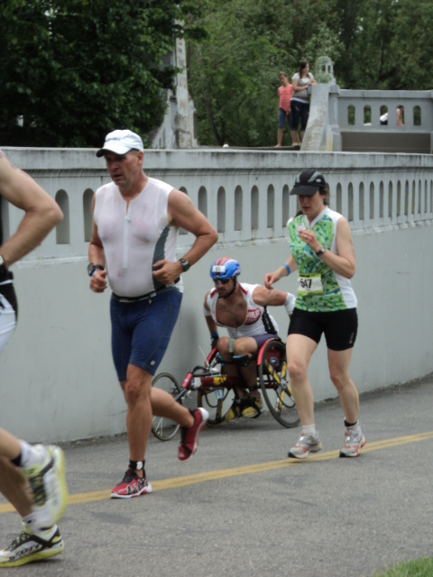 A wheelchair-bound athlete competes at the Boise Triathalon 70.3